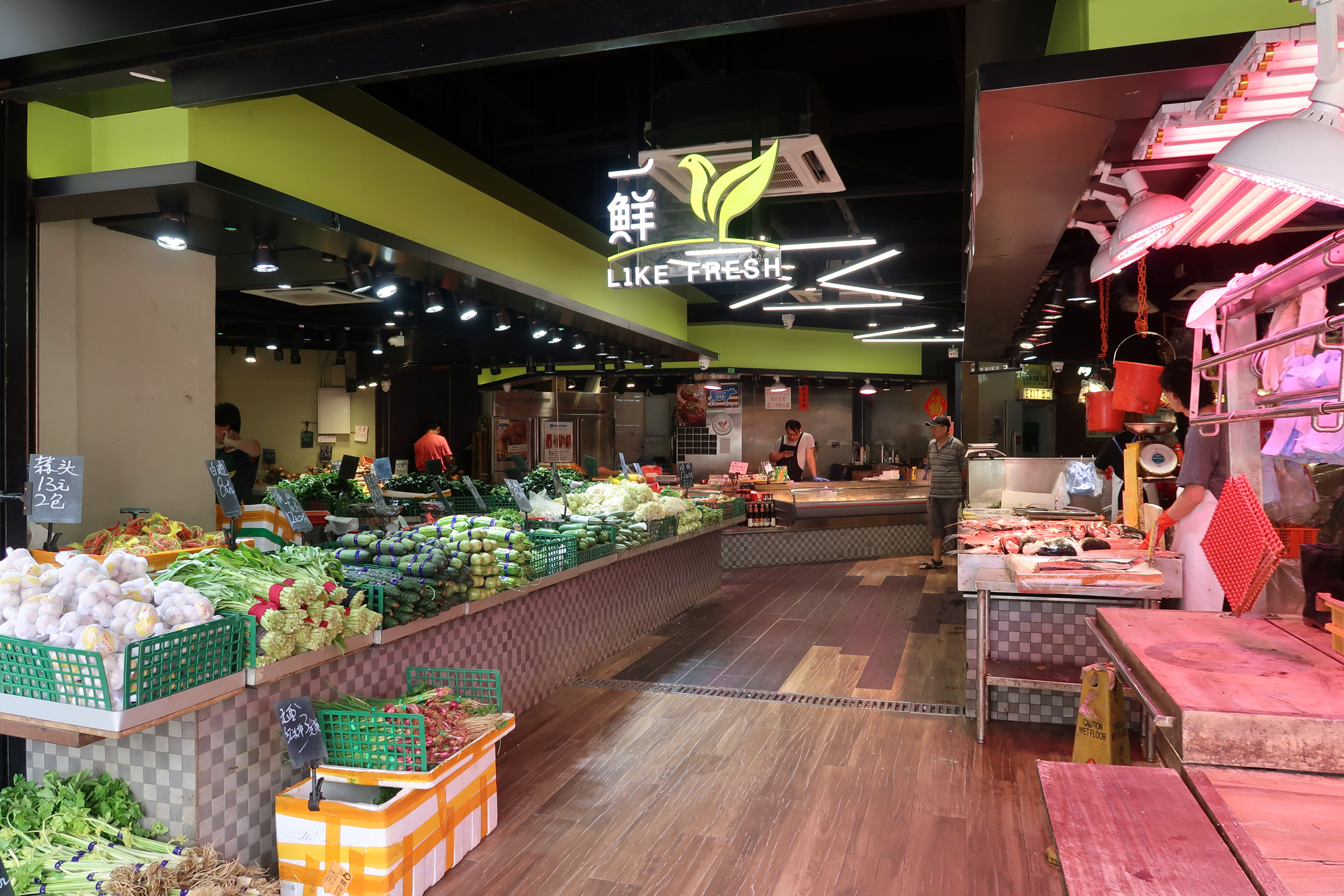 Kingswood Richly Plaza GF Like Fresh market